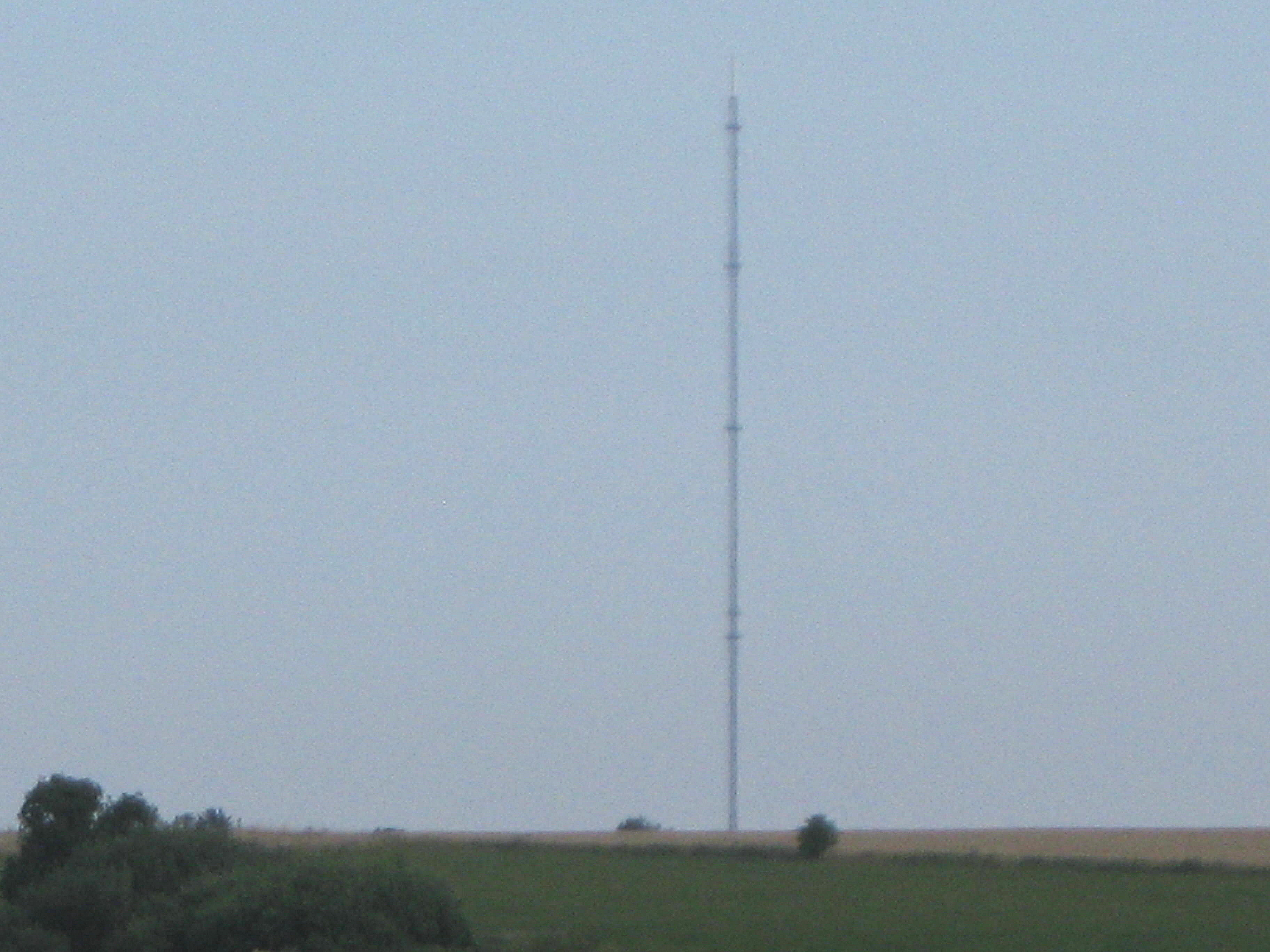 The TV-Tower "Rø-senderen" located on the central part of Bornholm in east Denmark.